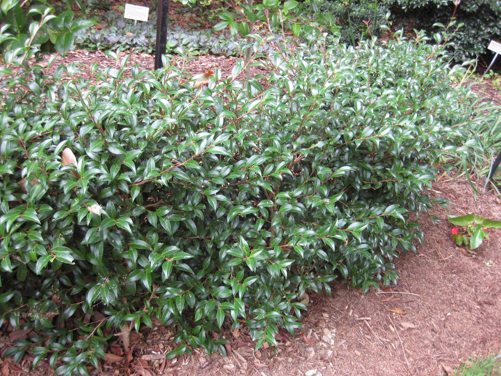 Photographed at the Royal Botanic Gardens Sydney (Australia) in January